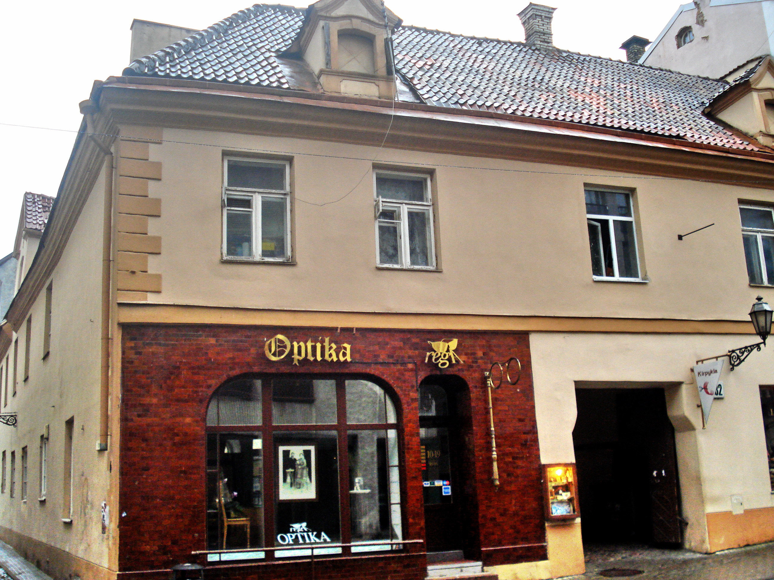 Liachowicz's House, till 1945 House of Roemer Family in Vilnius (Pilies g. 32/1)